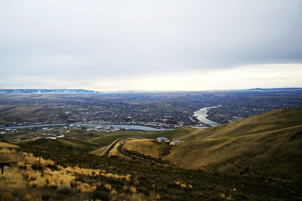 Lewiston, Idaho, Clarkston, Washington, Snake River, & Clearwater River seen from viewpoint on U.S. Route 95 north of Lewiston, Idaho, U.S.